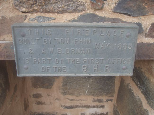 First BHP Offices Chimney Ruin: Plaque detailing the builders of the BHP Fireplace and year of construction